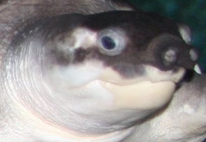 Carettochelys insculpta in Siam centre, Bangkok. 7 November 2009. Cropped.